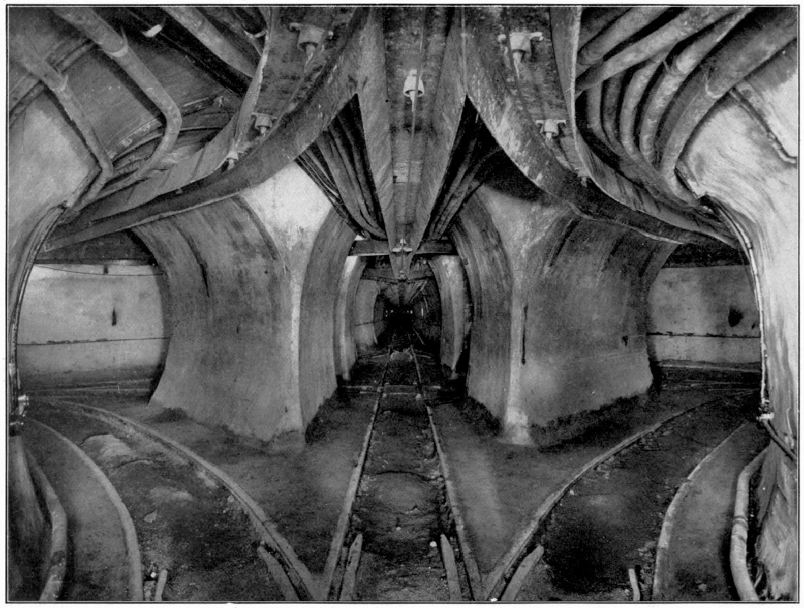 Original caption: Rapid Transit: "TYPICAL STREET INTERSECTION -- CHICAGO." Centennial History: "SECTIONAL VIEW OF THE ILLINOIS TUNNEL COMPANY'S TUNNELS." This is the version from the Centennial History, as it was printed with higher resolution and without retouching.